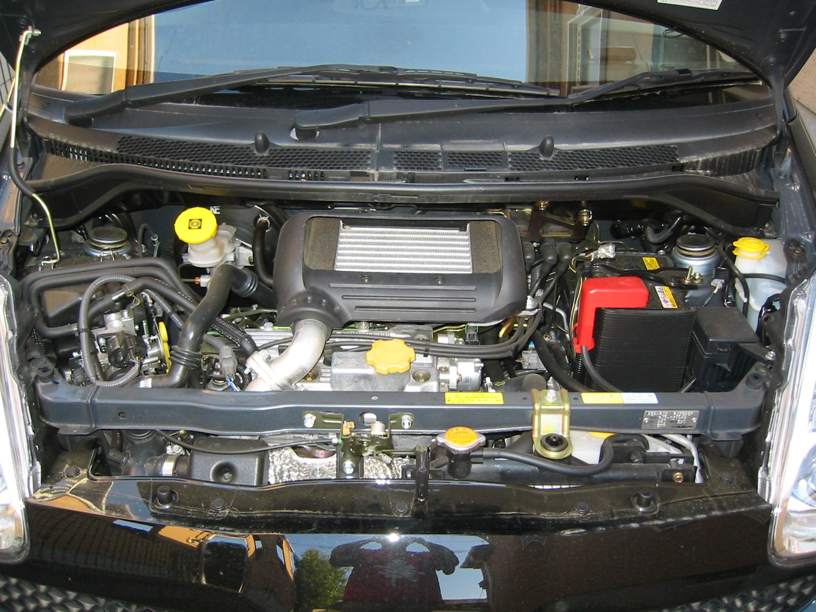 SUBARU R1 S (Engine) Supercharger Model